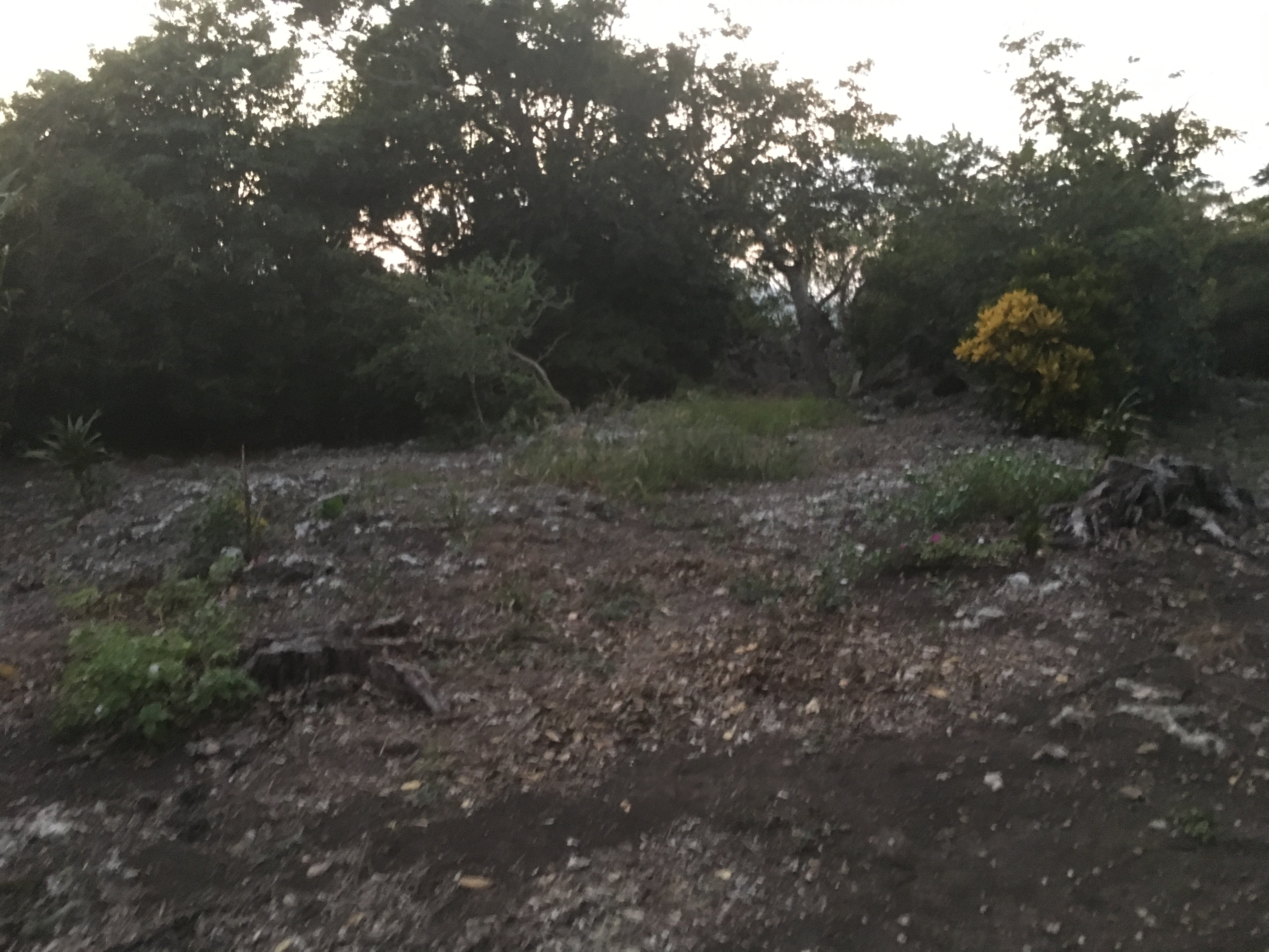 Site of the main hall of Iha Castle